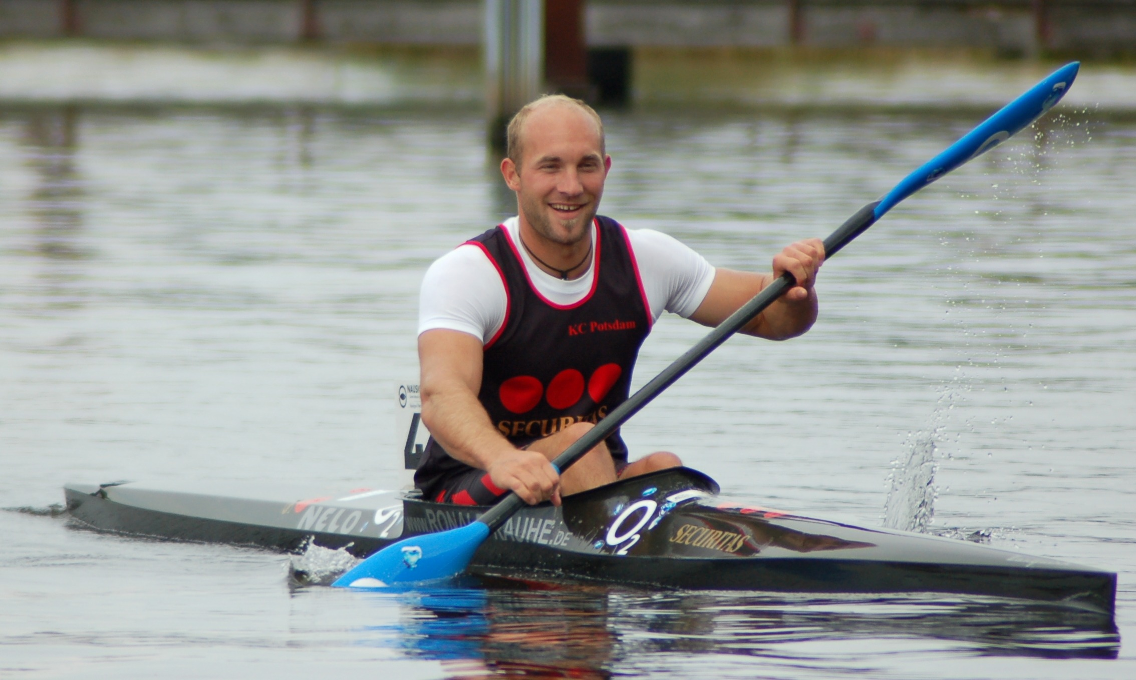 Ronald Rauhe at the German Championships 2007 in Hamburg right after his victory in the 200m-final.